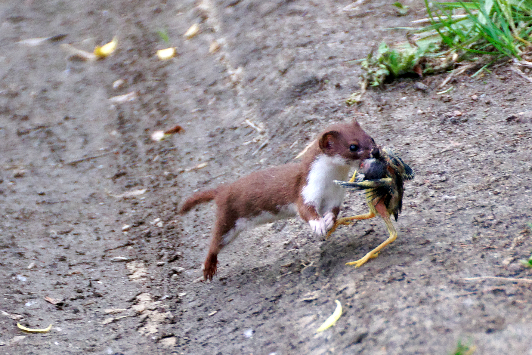 Least weasel (Mustela nivalis) with hunted willow warbler's (Phylloscopus trochilus) chick, the bank of Vistula River in Piekary near Kraków